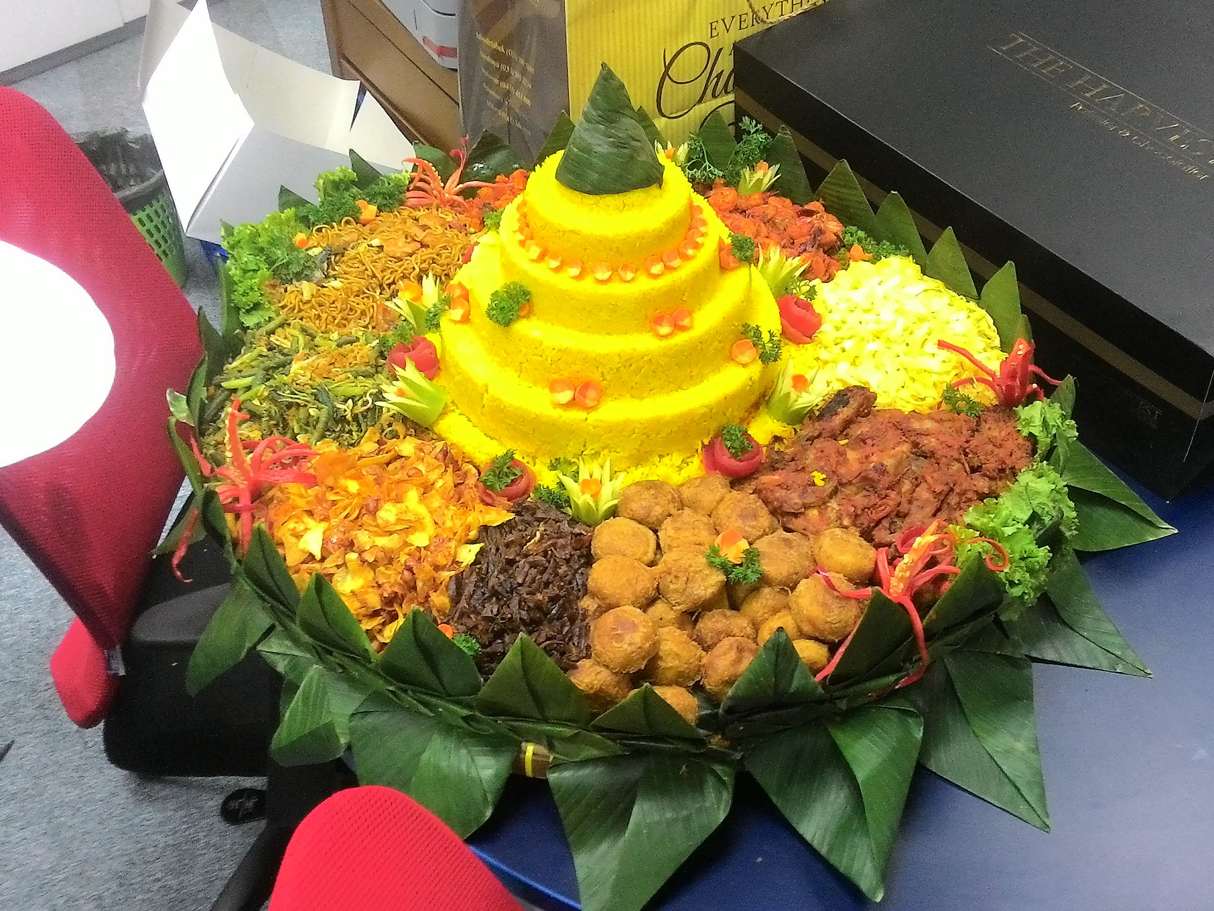 Tumpeng, a celebrative Javanese yellow rice cone surrounded by savoury dishes, during Kompas daily 53rd anniversary in 28 June 2018 in Jakarta, Indonesia.